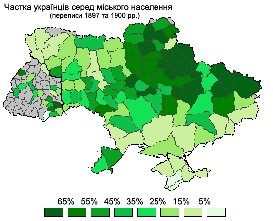 Share of ukrainians in urban population, 1897 and 1900 censuses